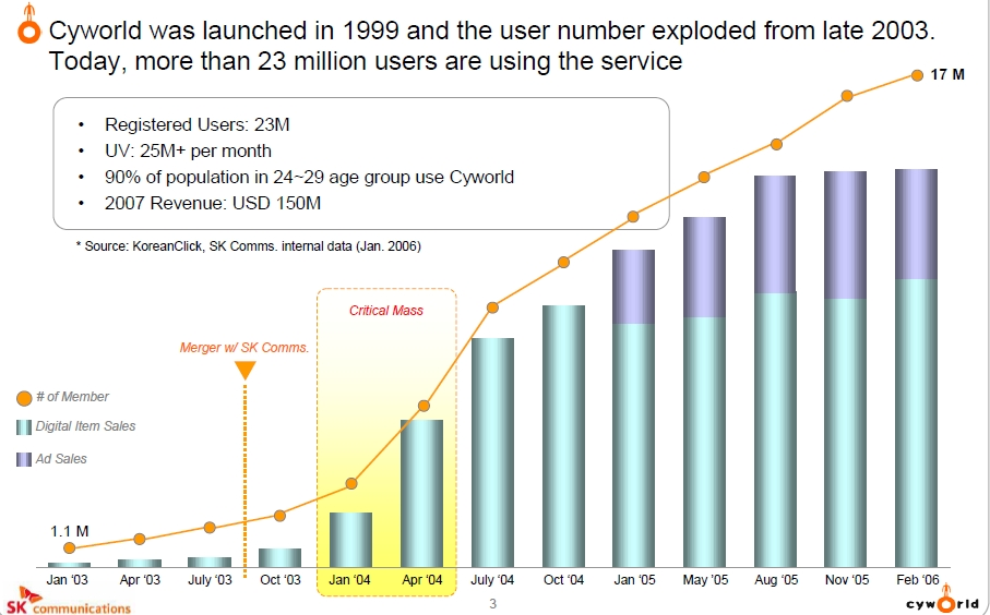 golden years